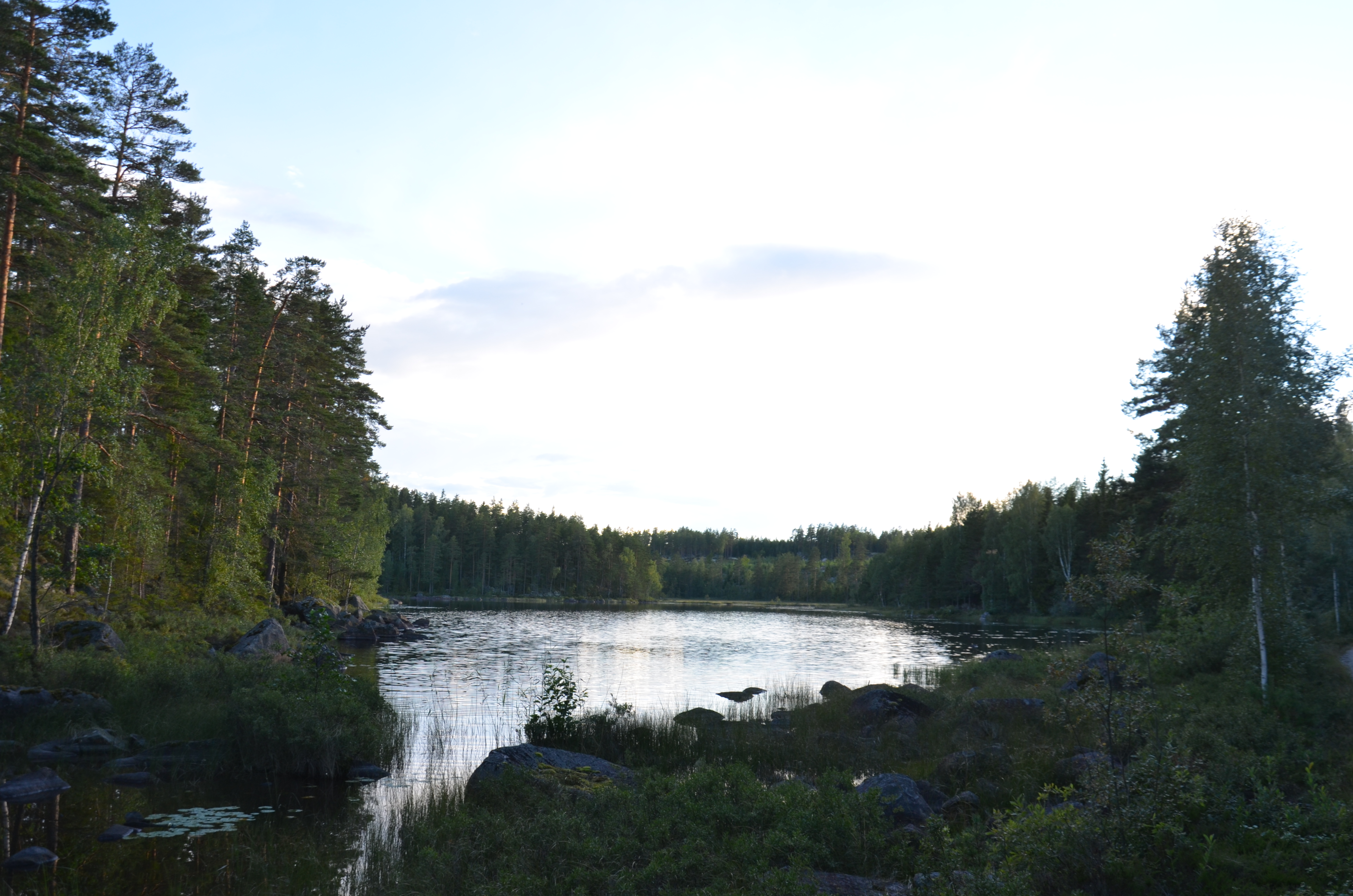 Sjön Hyttjärn i Norbergs kommun